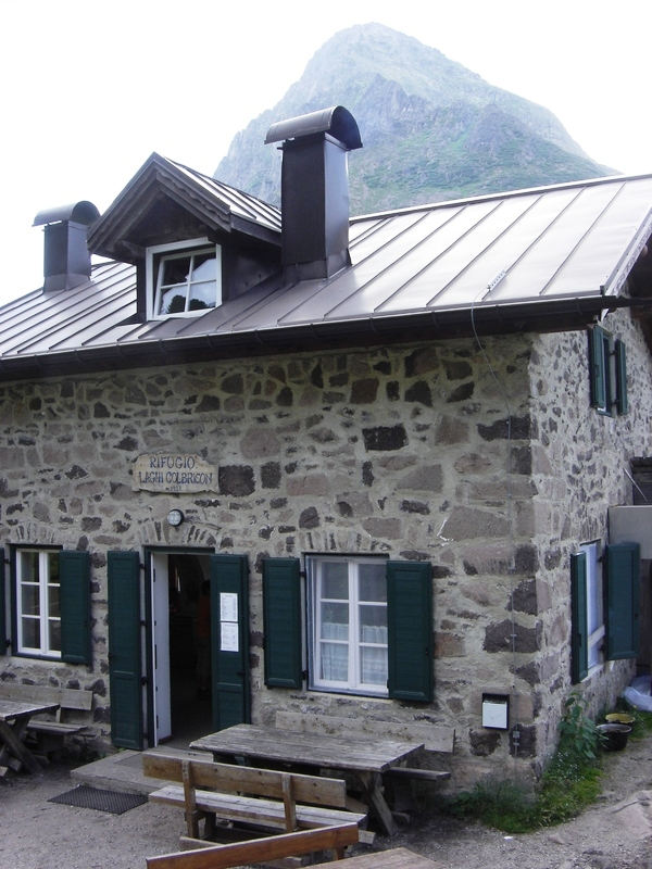 The Lake Colbricon Refuge in front of the peak of ColbriconAlemannisch: Die Refuge Lakes Colbricon auf den Berg Colbricon